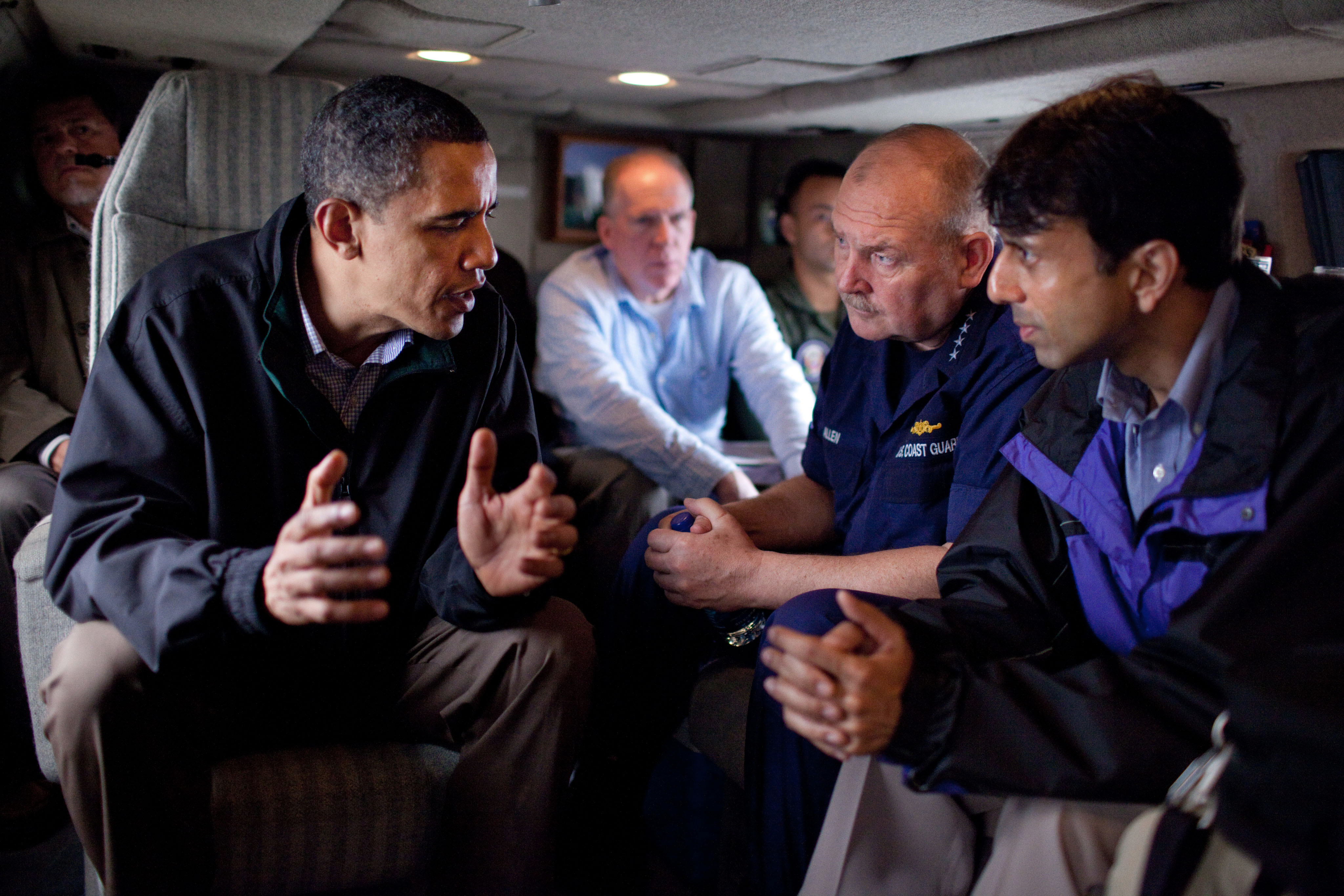 May 2, 2010 "Aboard Marine One, the President speaks with Louisiana Gov. Bobby Jindal, right, and Thad Allen, the national incident commander, about the BP oil spill during a trip to the Gulf Coast." (Official White House Photo by Pete Souza) This official White House photograph is in the public domain from a copyright perspective, so while restrictions such as personality or privacy rights may apply, in general, manipulations are allowed.